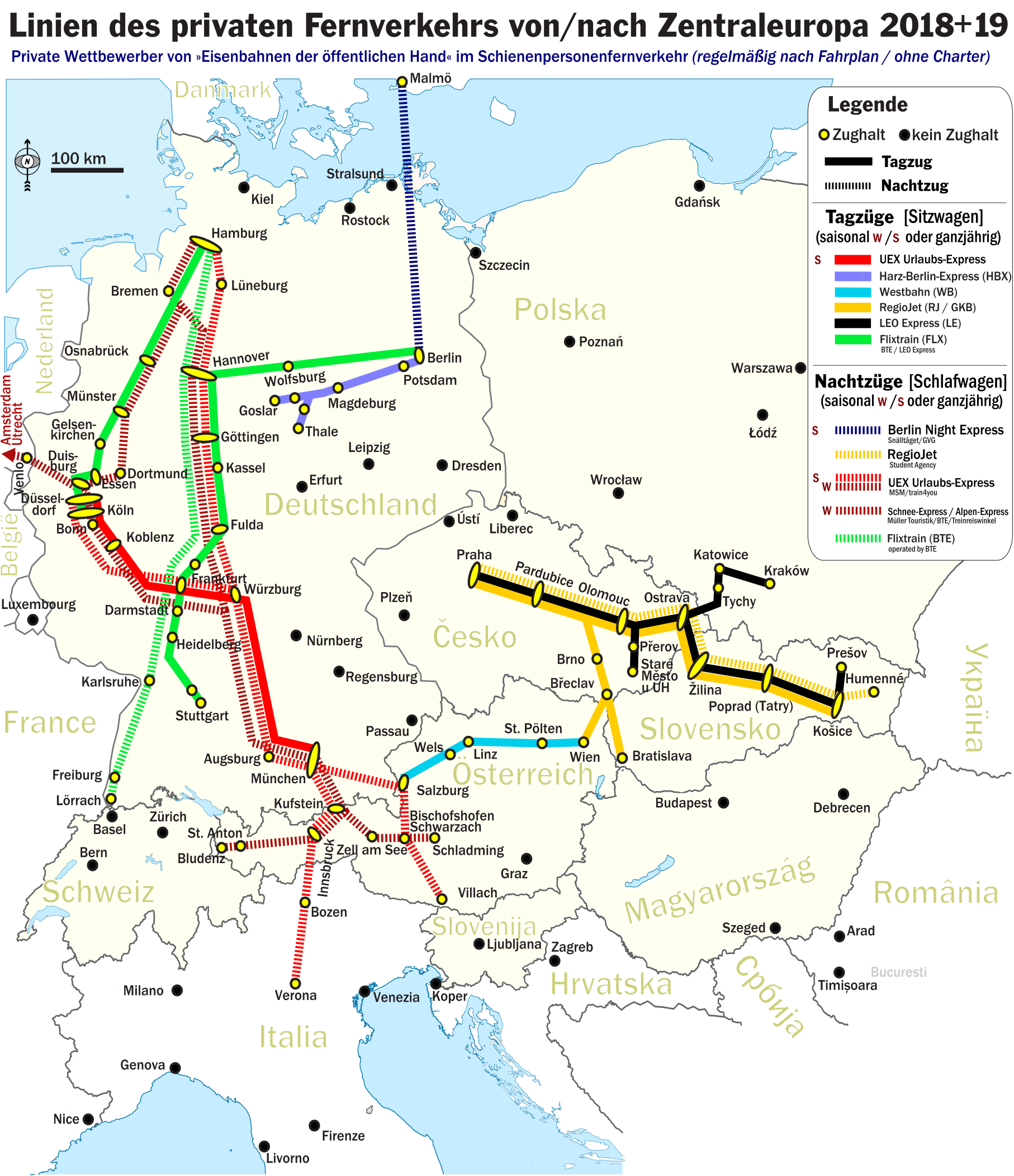 The map shows lines of regularly operated long-distance / inter-city passenger rail services from or to destinations in Central Europe. The open-access passenger rail services are self-sufficient and run by privately owned railway companies for profit.The rail services are being run in competition with public-sector (i.e. public body or state-owned) passenger railway companies. Companies being fully or by majority owned by the public sector are excluded from the map (as an example, Arriva plc is 100% owned by German state-owned rail company DB AG and operating all over Europe except Germany - this DB AG passenger rail company and all of its subsidiaries in which Arriva holds the majority are excluded from the map). Also excluded from the map are (i.) rail charters, (ii.) motorail services without the possibility to travel without car or motorbike and also (iii.) long-distance passenger rail services that are procured through public bodies and financed through franchise contracts (no self-sufficient operation) - plus finally (iv.) short-distance services (like shuttles, commuter trains, metros, etc...) of any kind.The map includes all-year round daylight services as well as seasonal / all-year night trains. The operation frequency covers everything between a mimimum of one connection per week up to multiple connections each day (even in the case of seasonal offers). The map shows - in different colors - the different railway lines. Branched railway lines share the same colour as their parent line. For more details, see the legend.